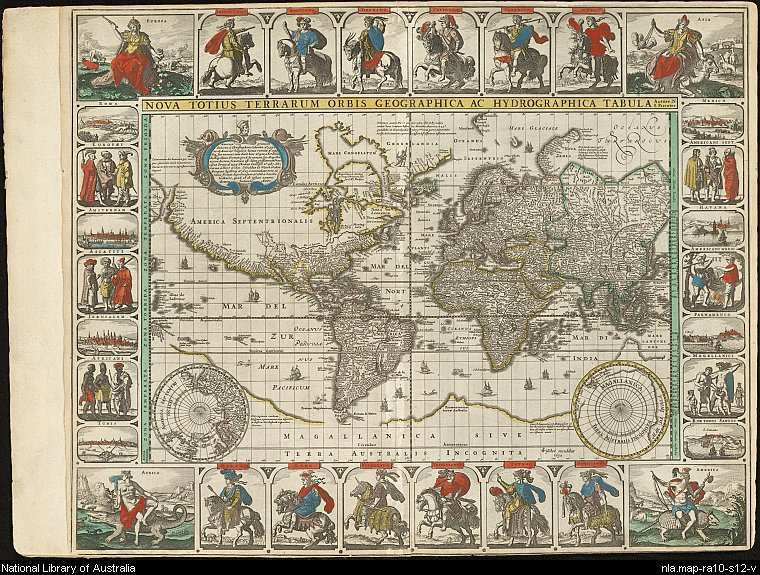 World map, included in the Doncker sea atlas, 1659 edition (created by Doncker, Hendrick, 1626-1699), acquired by the Australian Government in 1909, as part of the Petherick Collection of the National Library of Australia.[1] ↑ National Library of Australia - Doncker sea atlas